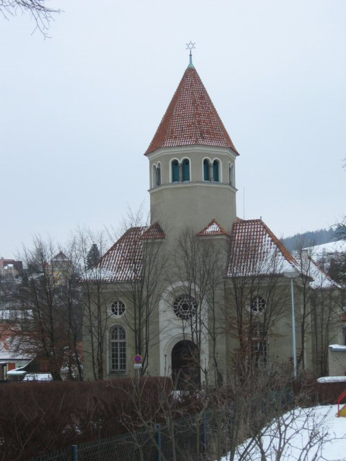 picture of cesky krumlov synagogue taken in february 2010